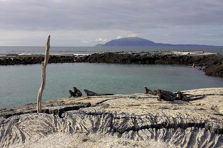 View at Fernandina Island, Galapagos.